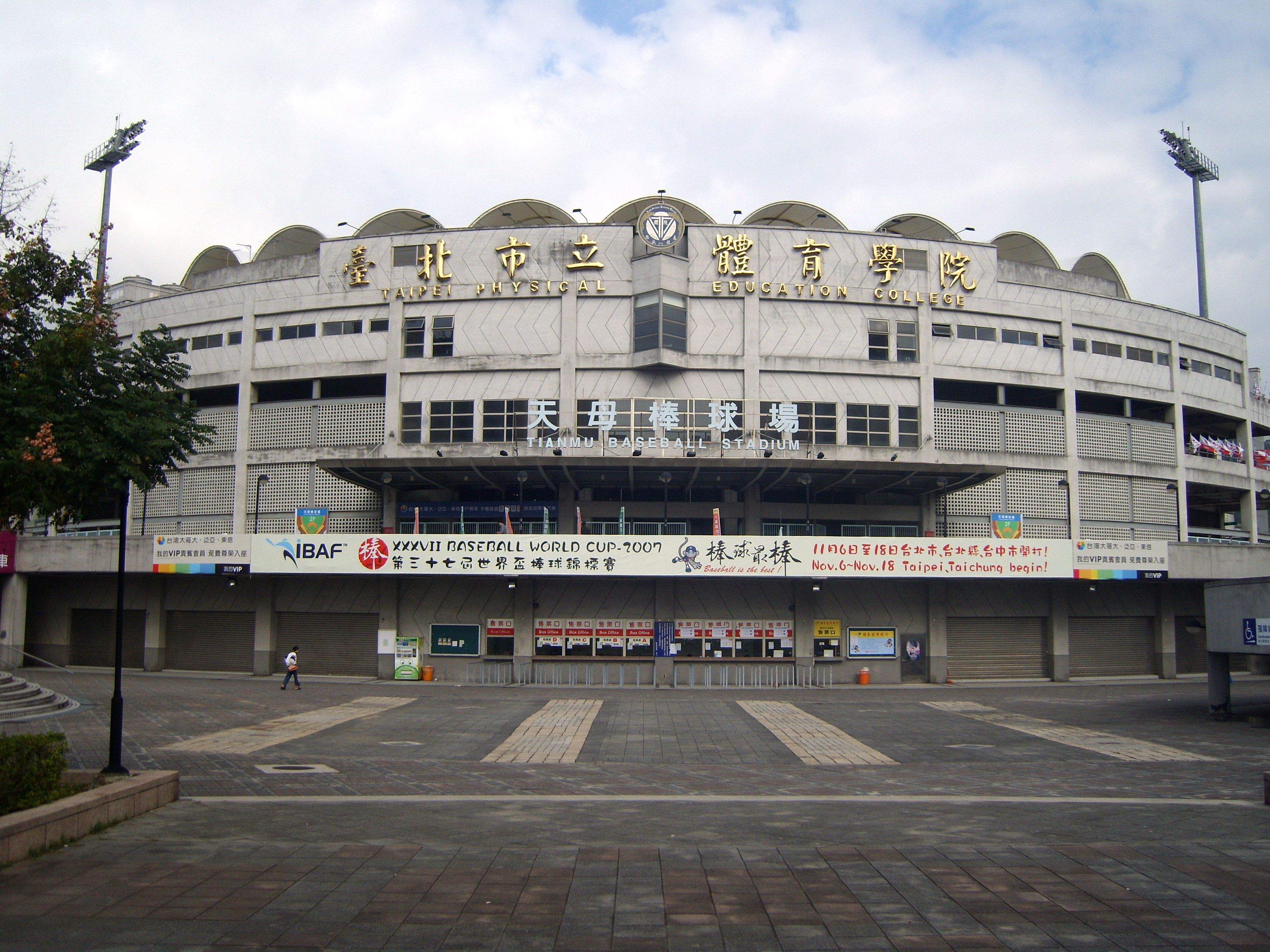 2007 Baseball World Cup: Taipei Municipal Tianmu Baseball Stadium.